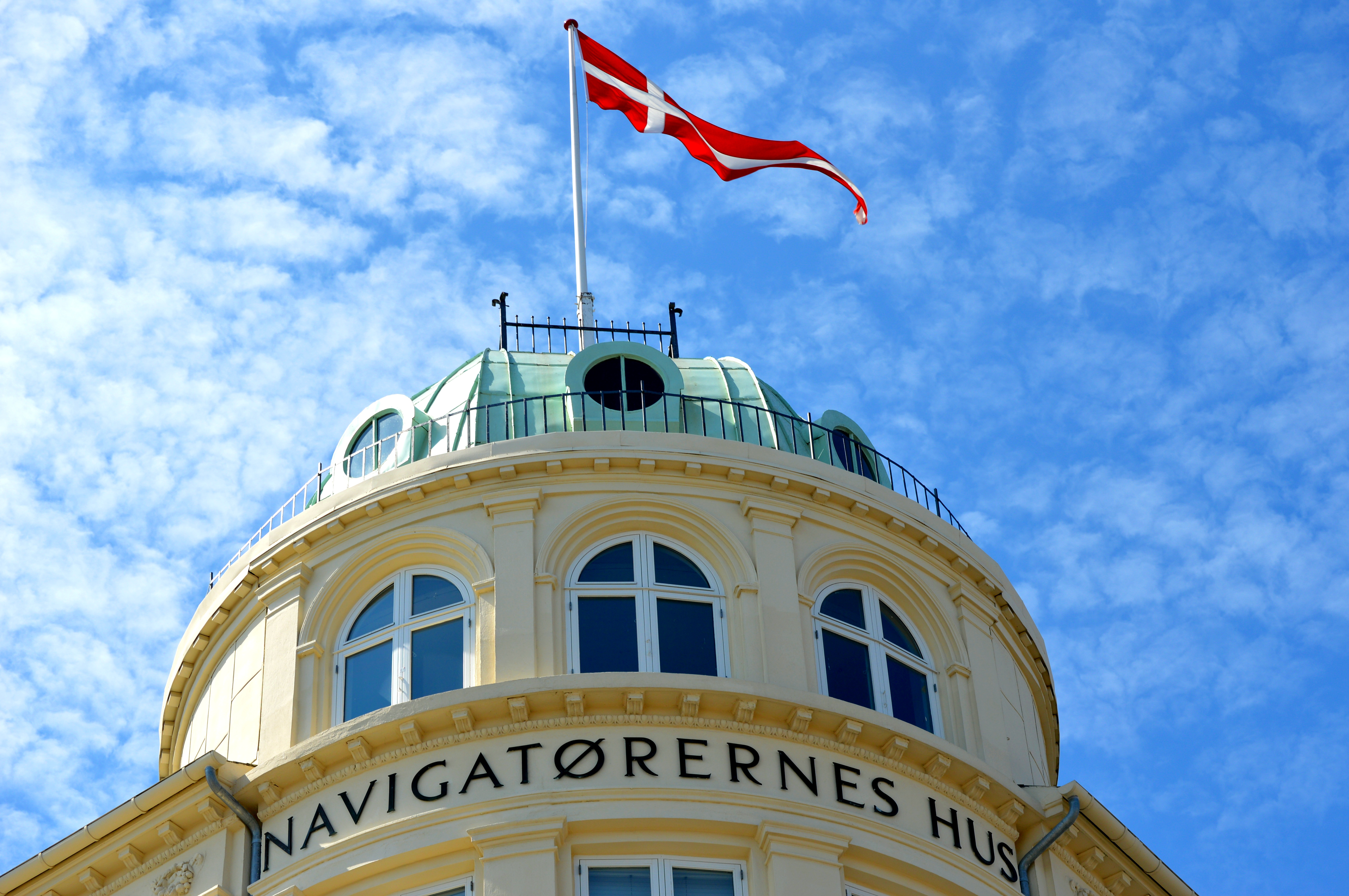 The top of the Building Navigatørernes Hus on the corner of Nyhavn with Havnegade in Copenhagen, Denmark